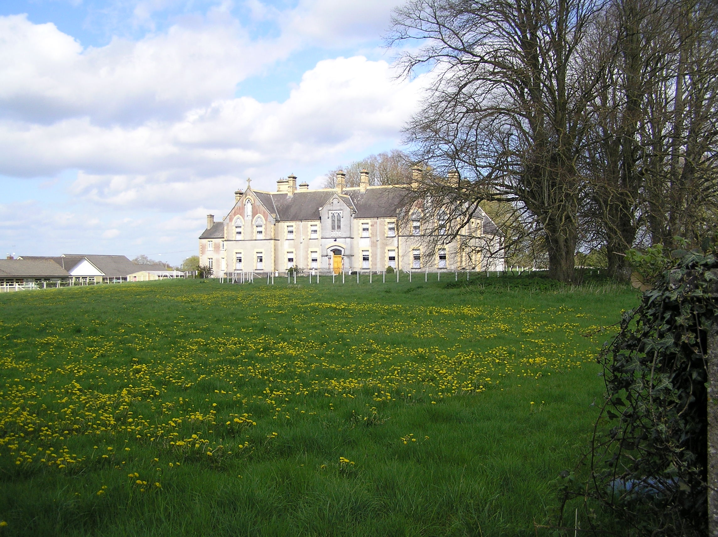 Mercy Convent in April 2006